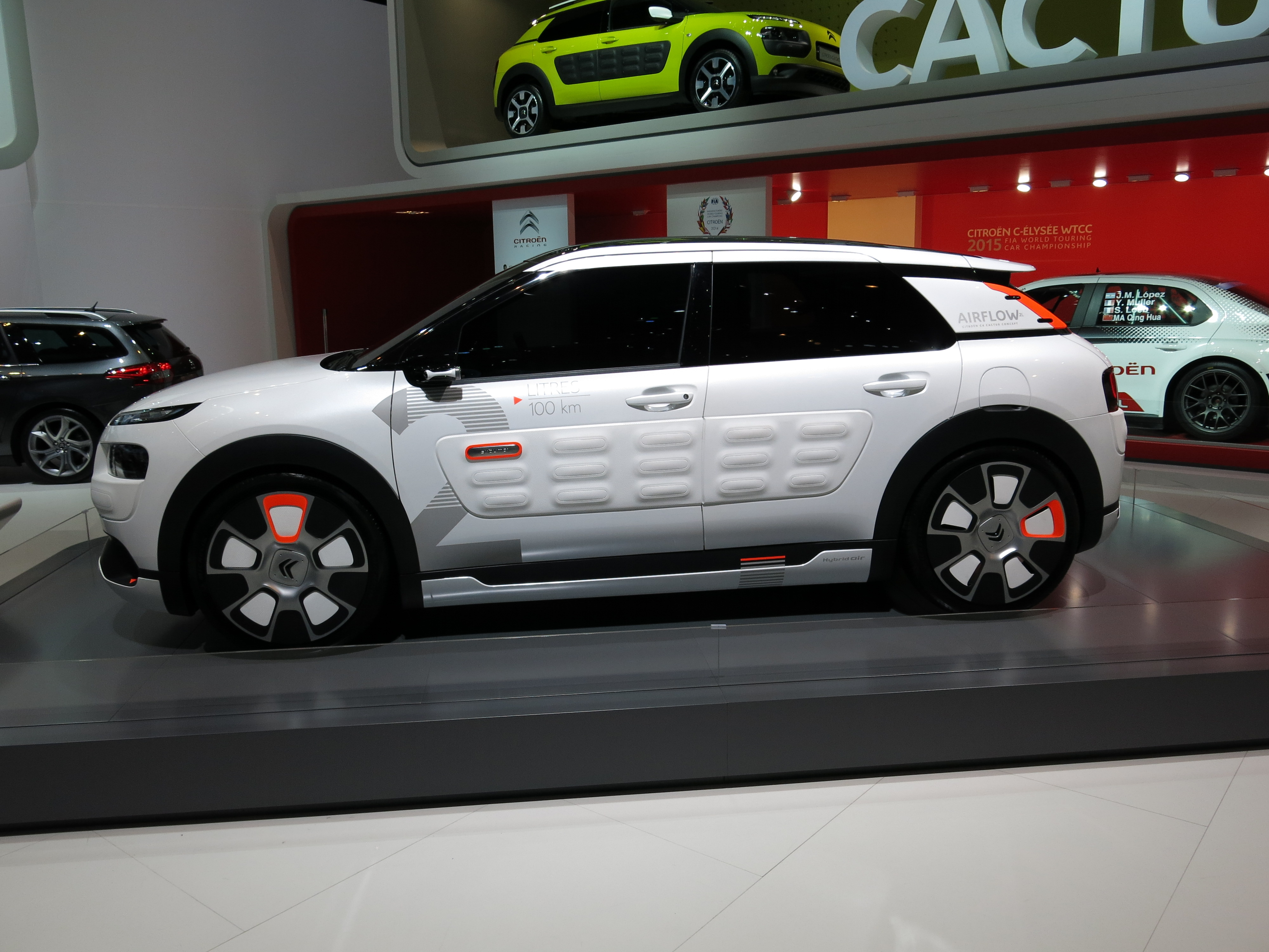 Geneva Motor Show 2015 (photo taken on the first press day)